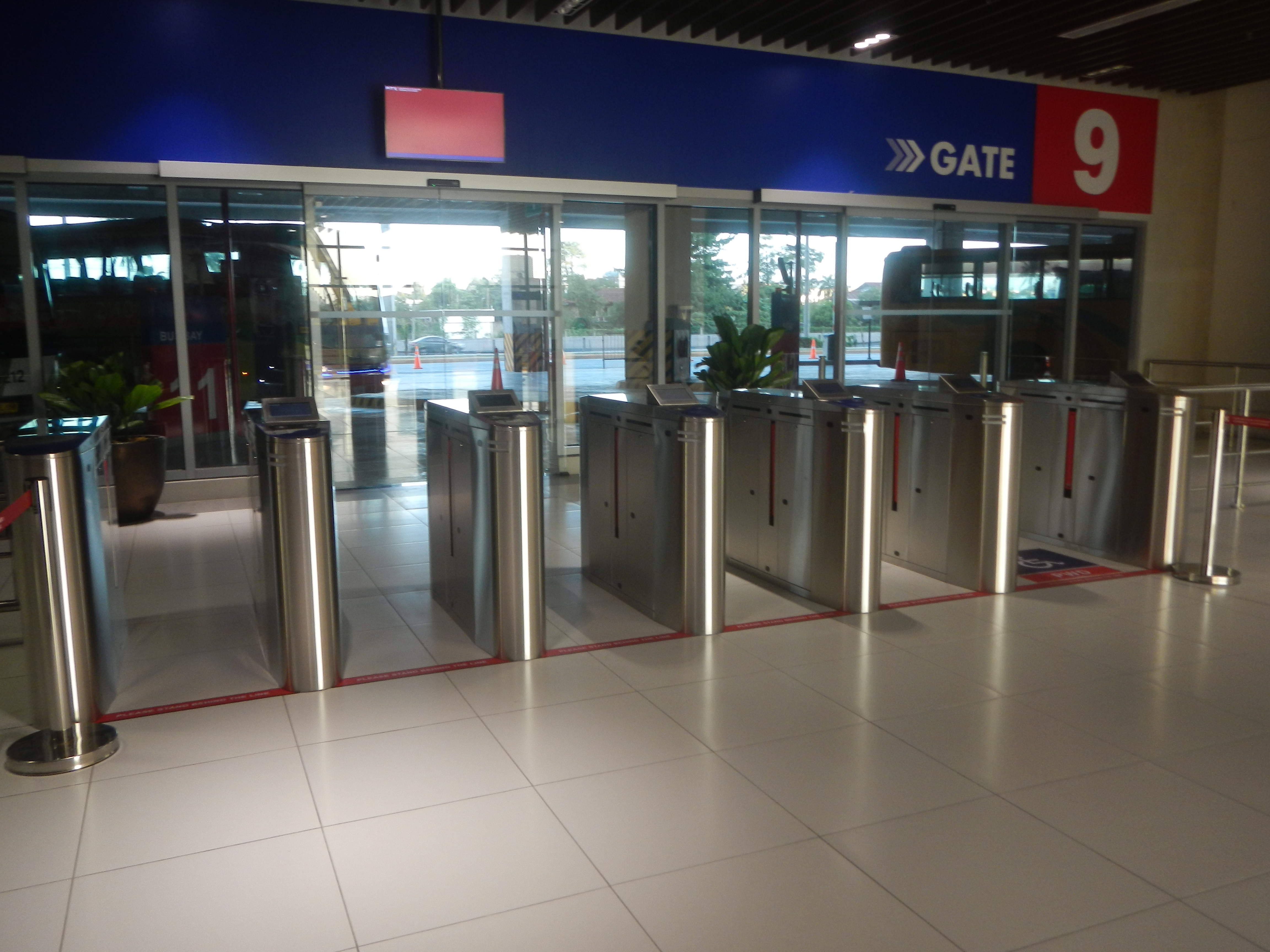 Parañaque Integrated Terminal Exchange (PITX) (Parañaque) 14°30'36"N 120°59'28"E PITX Parañaque Integrated Terminal Exchange (Note: Judge Florentino Floro, the owner, to repeat, Donor Florentino Floro of all these photos hereby donate gratuitously, freely and unconditionally all these photos to and for Wikimedia Commons, exclusively, for public use of the public domain, and again without any condition whatsoever).